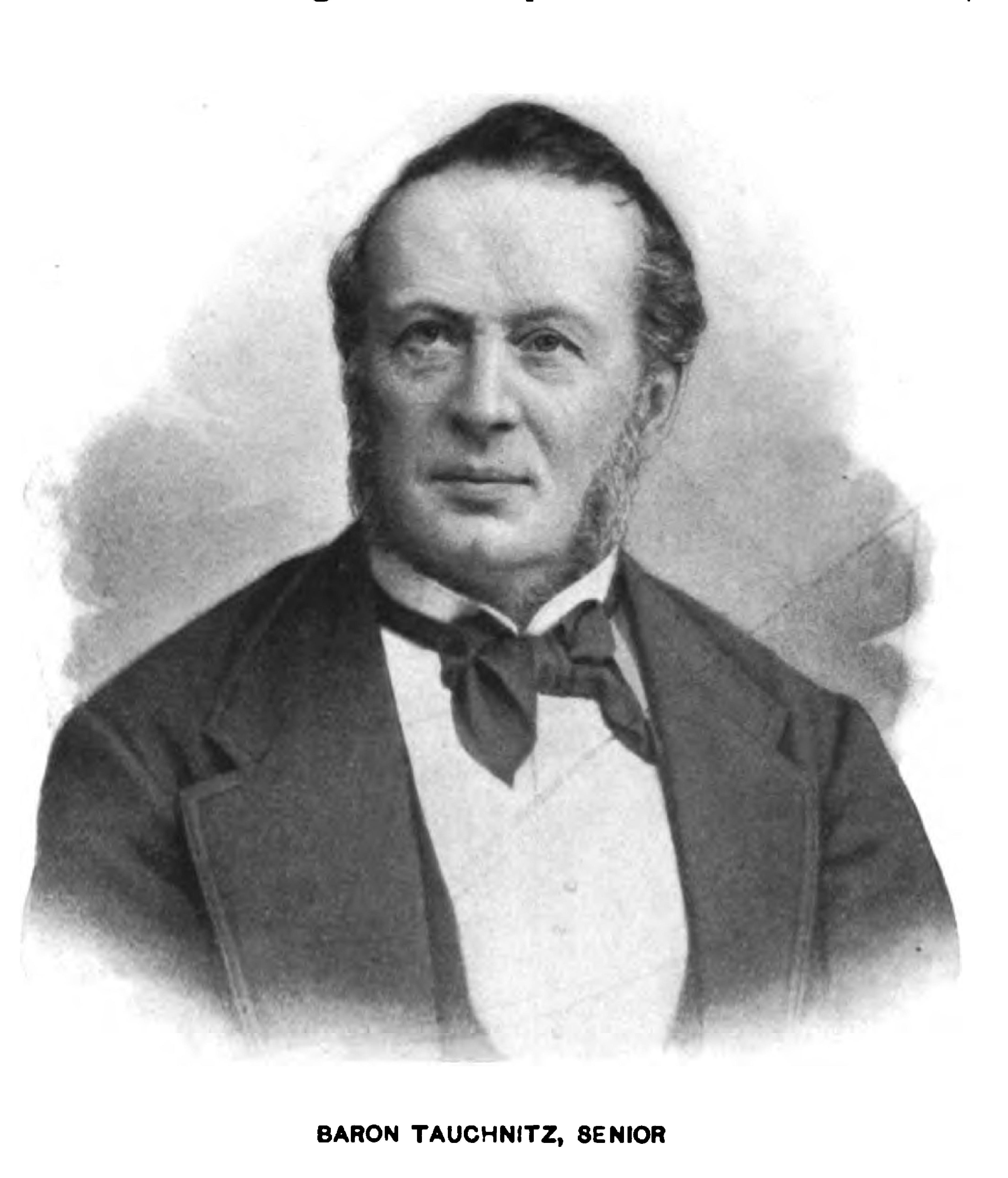 Christian Bernhard, Freiherr von Tauchnitz (1816-1895), the founder of the firm of Bernhard Tauchnitz, was the nephew of Karl Christoph Traugott Tauchnitz (1761-1836)